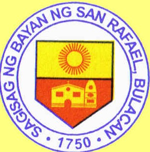 seal of the municipality of San Rafael, Bulacan